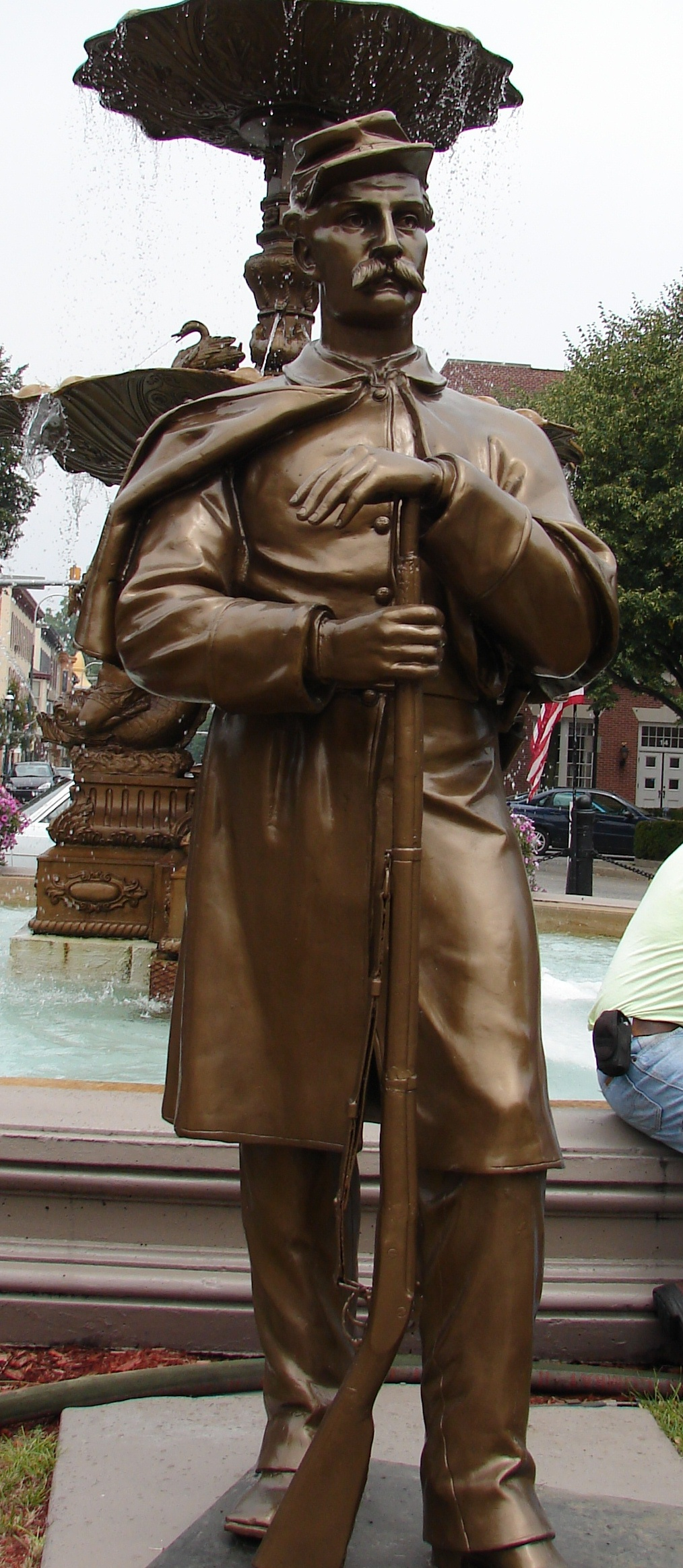 My own photo of the 19th Century statue on the Diamond in Chambersburg, PA. Taken August, 2007. I releae this into the public domain. Note: The statue was installed in 1878 according to the "National Historic Landmarks & National Register of Historic Places in Pennsylvania"